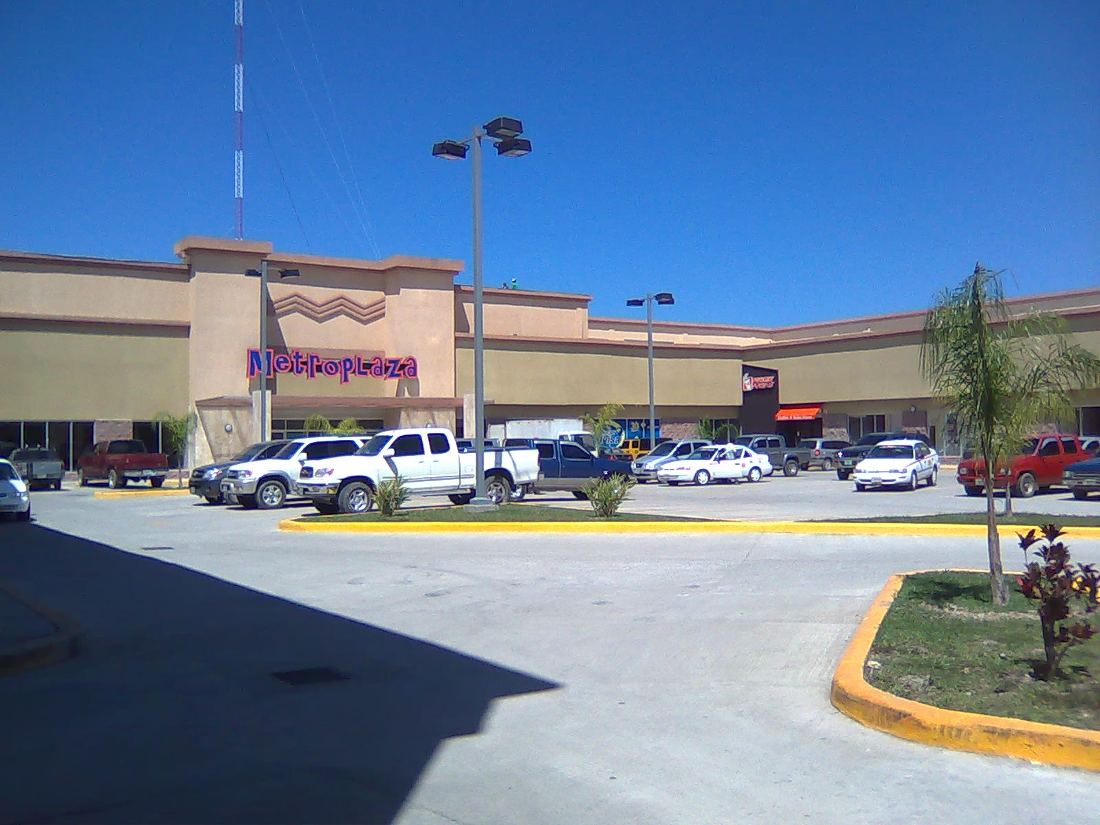 Centro Comercial Metroplaza Tocoa